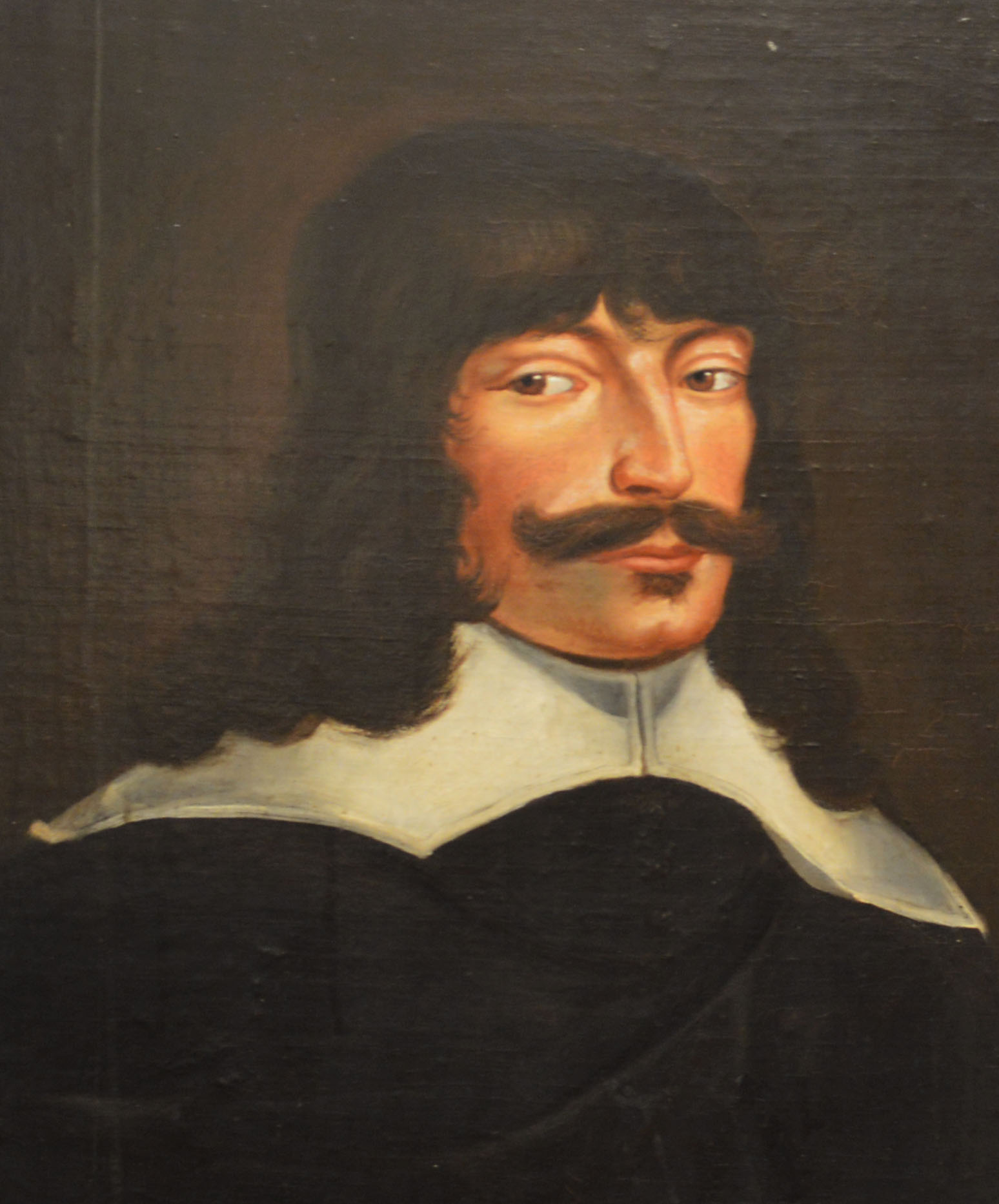 Dutch scholar Marcus Zuerius van Boxhorn (1612-1653), oilpainting by unknown artist. Painting at Lund University Library, Sweden. Photo by the uploader.